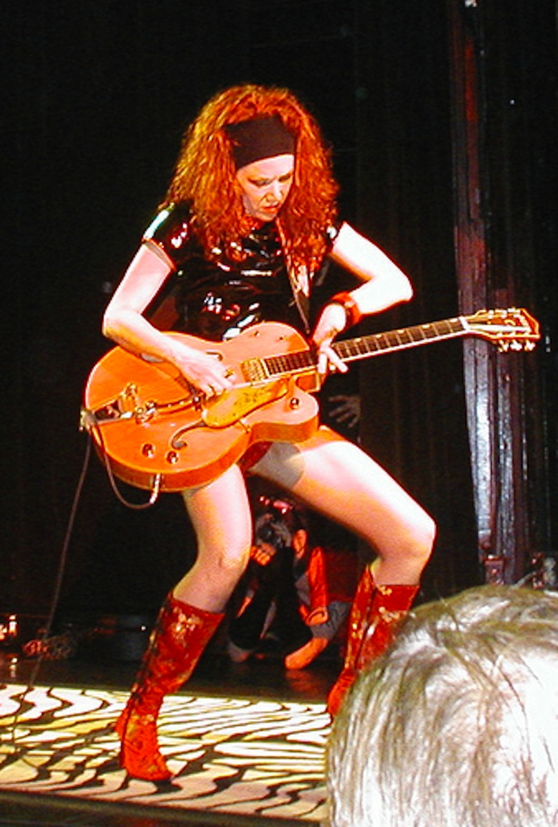 Ivy playing Irving Plaza, NYC, in 2005